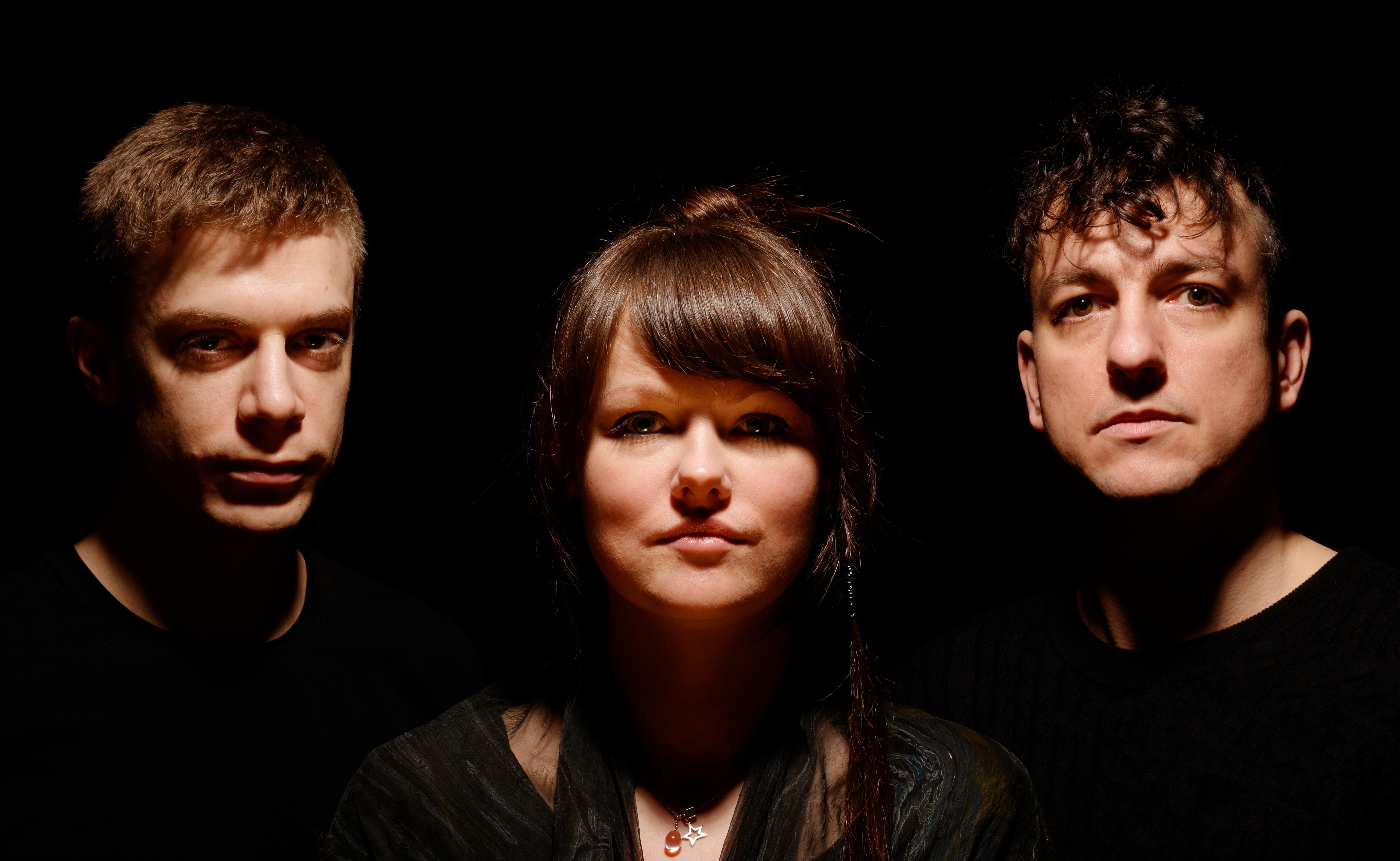 Band profile